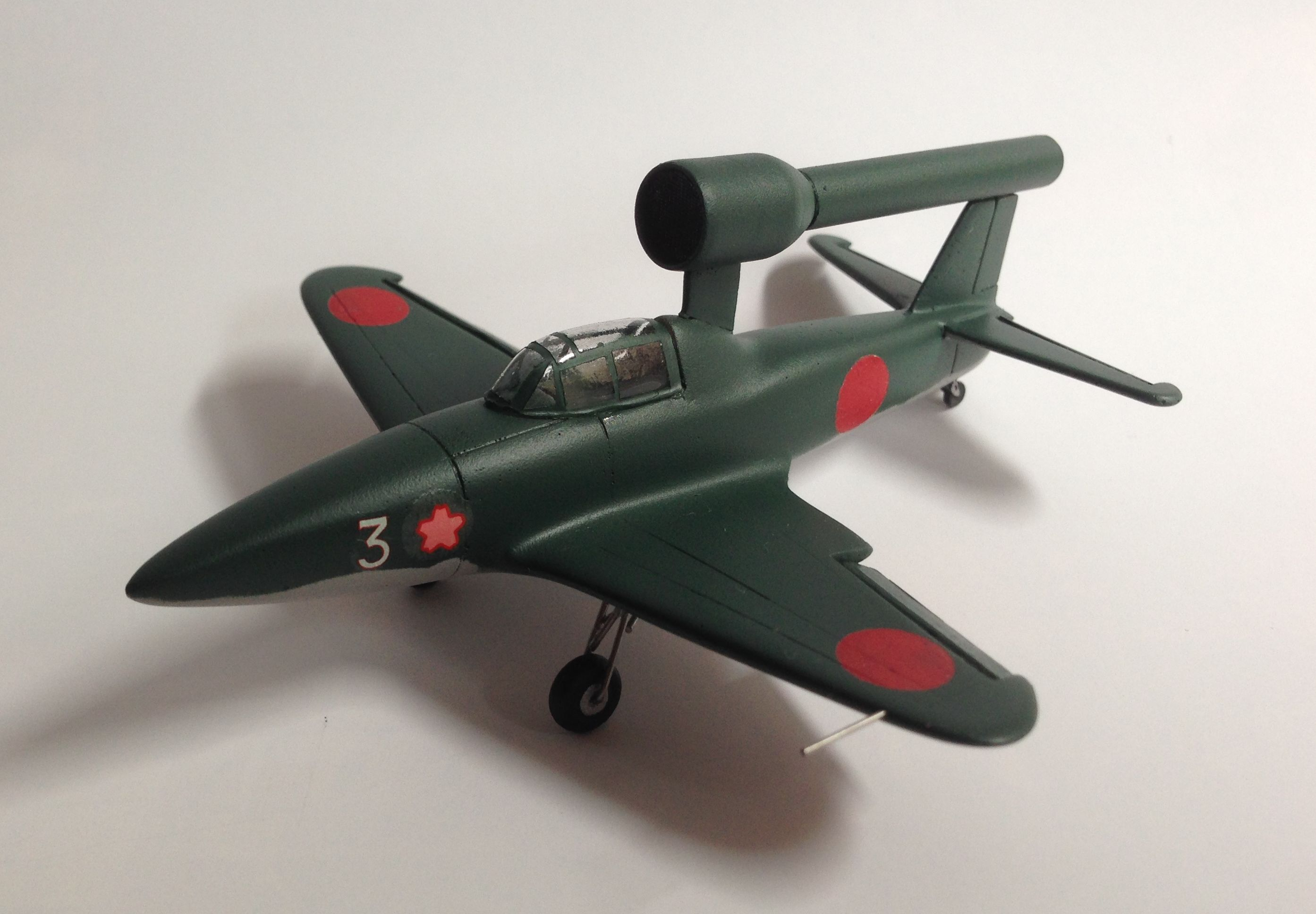 AV model´s Kawanishi Baika, 1/72 scale.